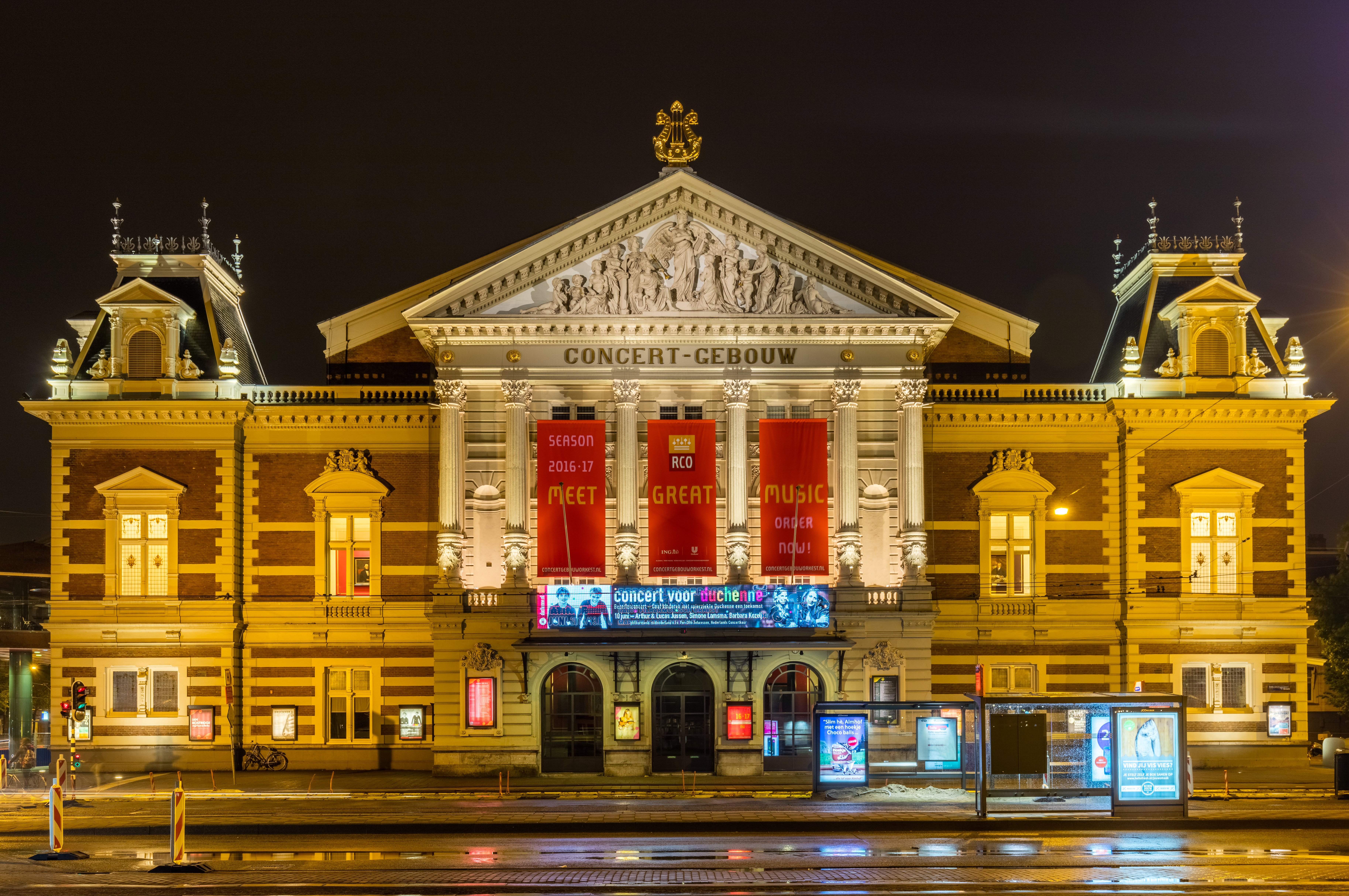 Concertgebouw, Amsterdam, Netherlands